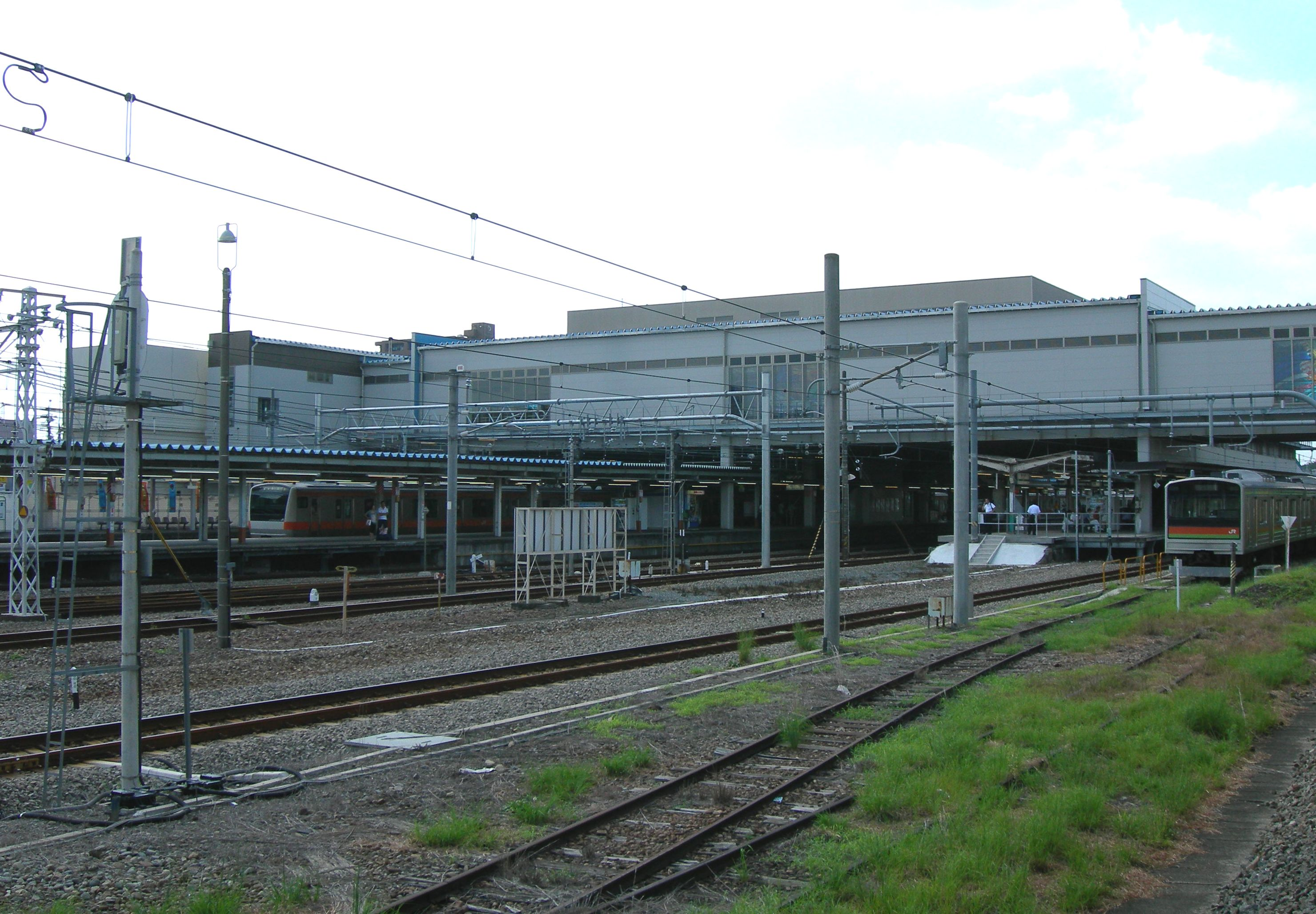 Haijima Station